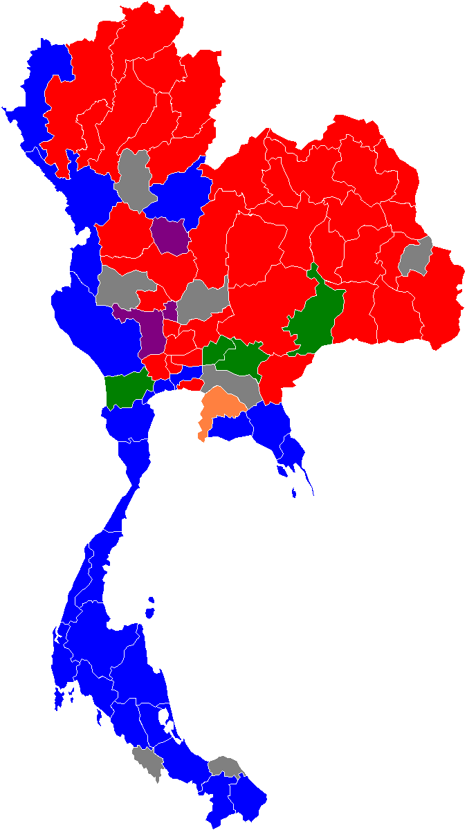 Results of the Thai general election per region. The color represents which party won majority of the seats in that region. Some regions are divided into several single-seat constituencies while some are not, in case when it is, the color should not be represented as a winner-take-all as other parties may have won seats in that region. Key: ■ – Pheu Thai ■ – Democrat ■ – BhumjaiThai ■ – Chartthai ■ – Palung Chon ■ – no majority